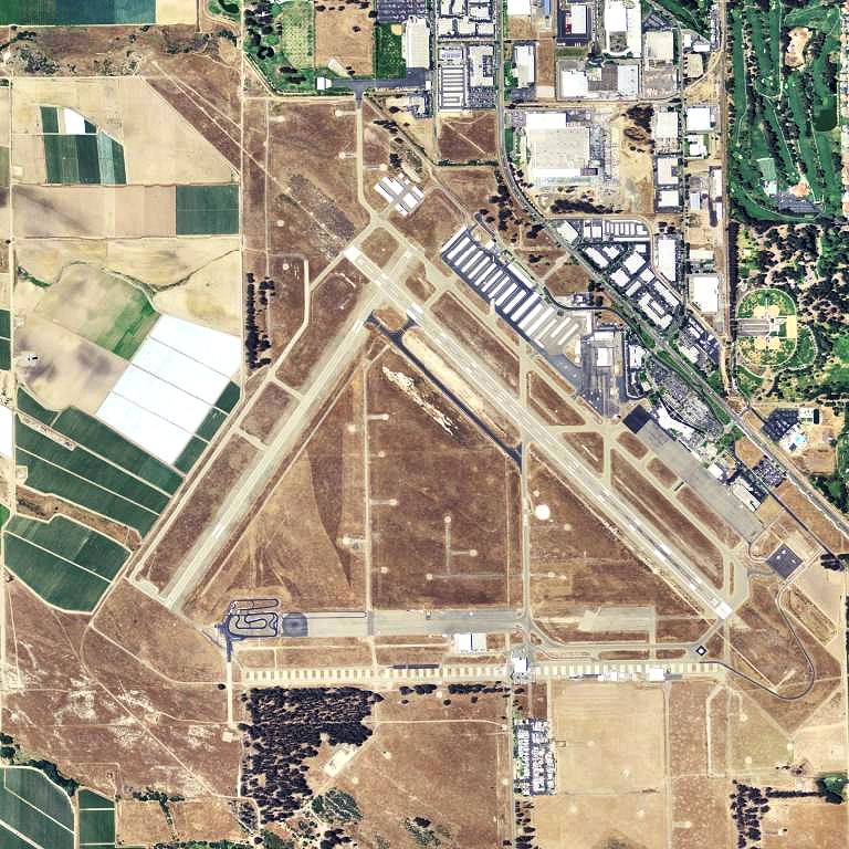 USGS digital orthophoto of Santa Maria Public Airport in California